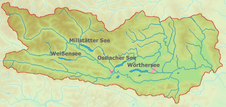 lakes in Carinthia, Austria